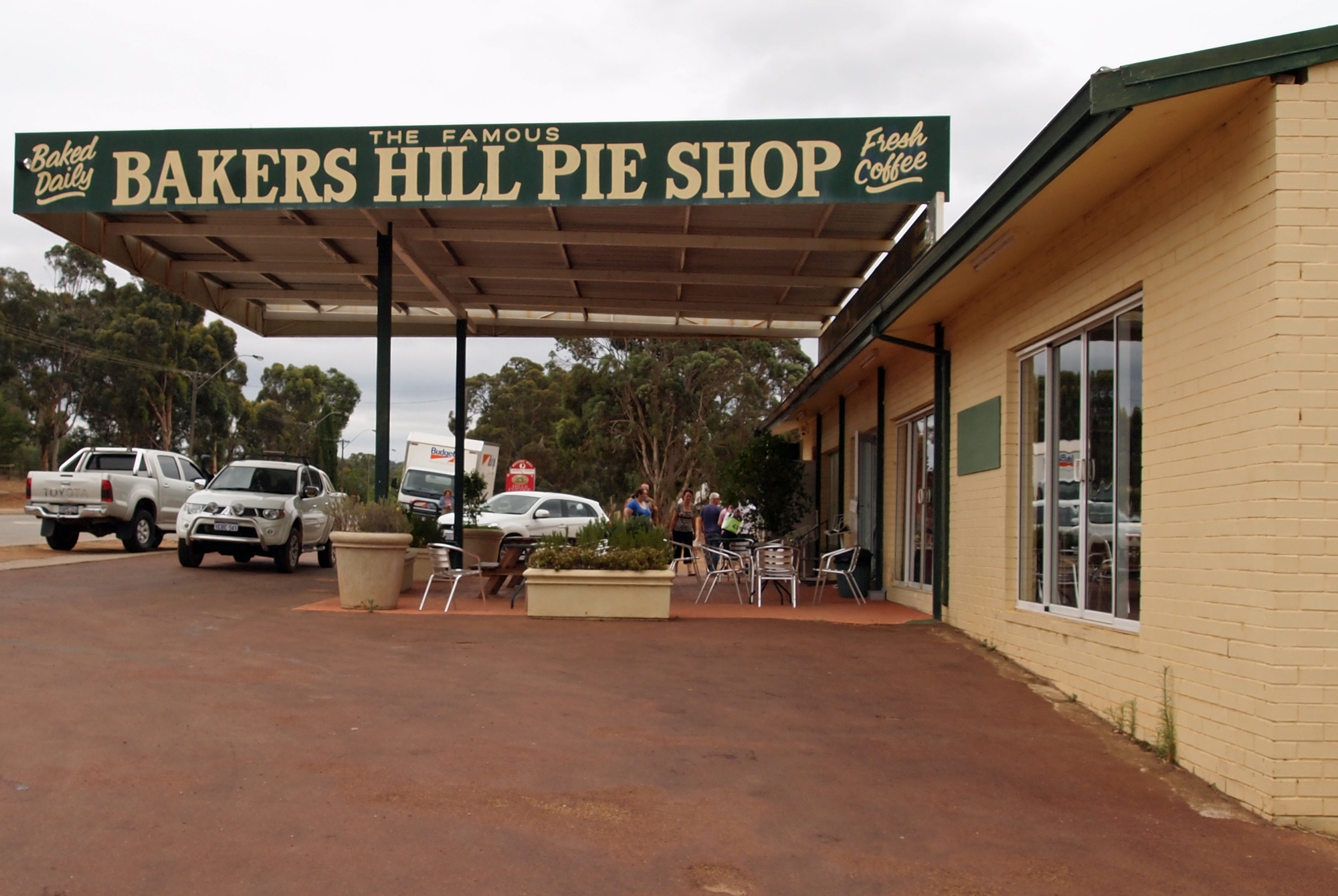 Pie shop at Bakers Hill, Western Australia